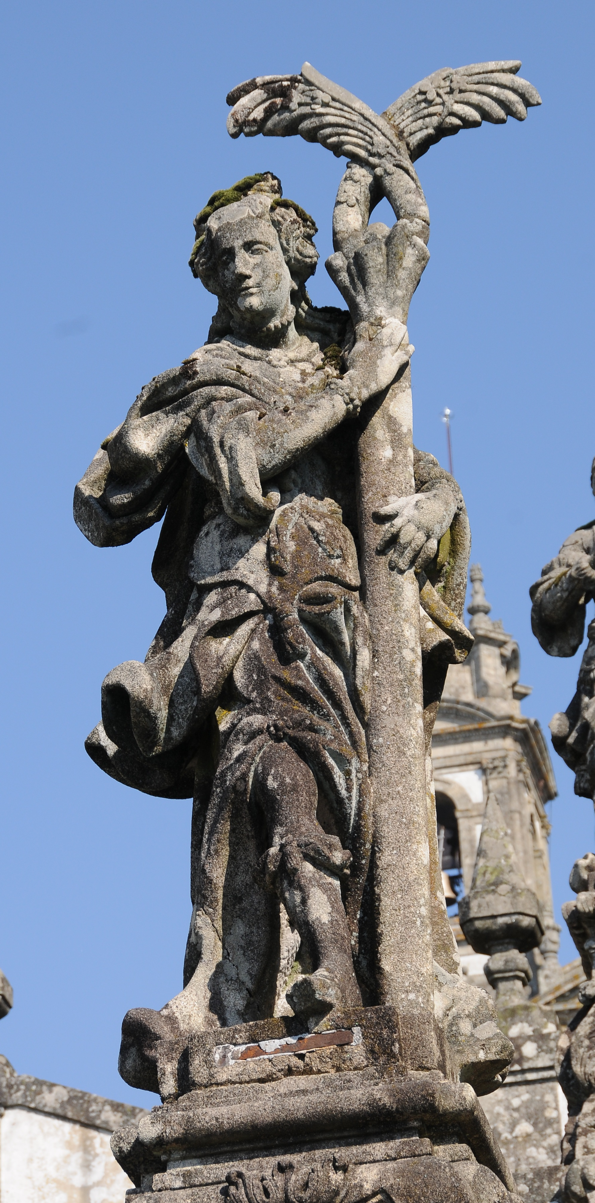 Sunamites statue in Fountain of the smell in Bom Jesus Braga